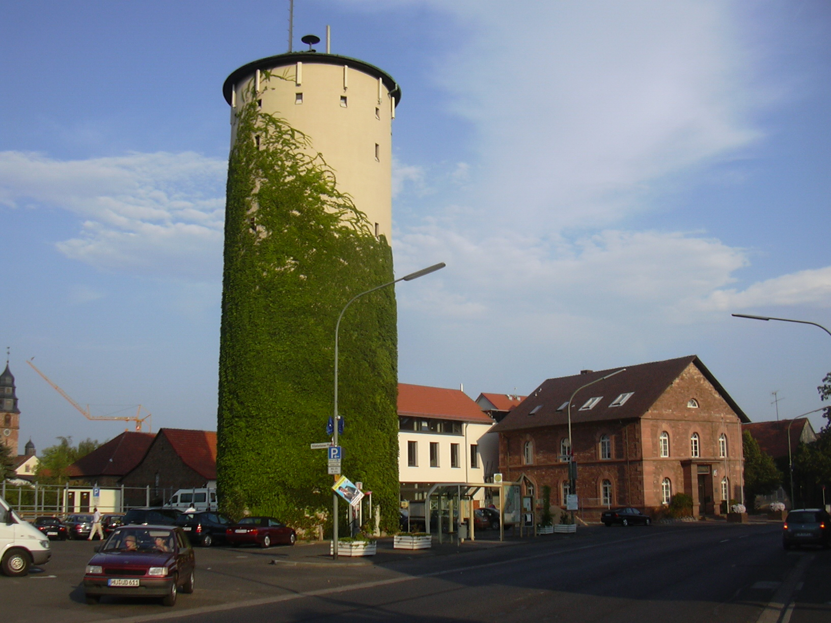 Town hall and water tower at Kahl, near Aschaffenburg, Bavaria/Germany